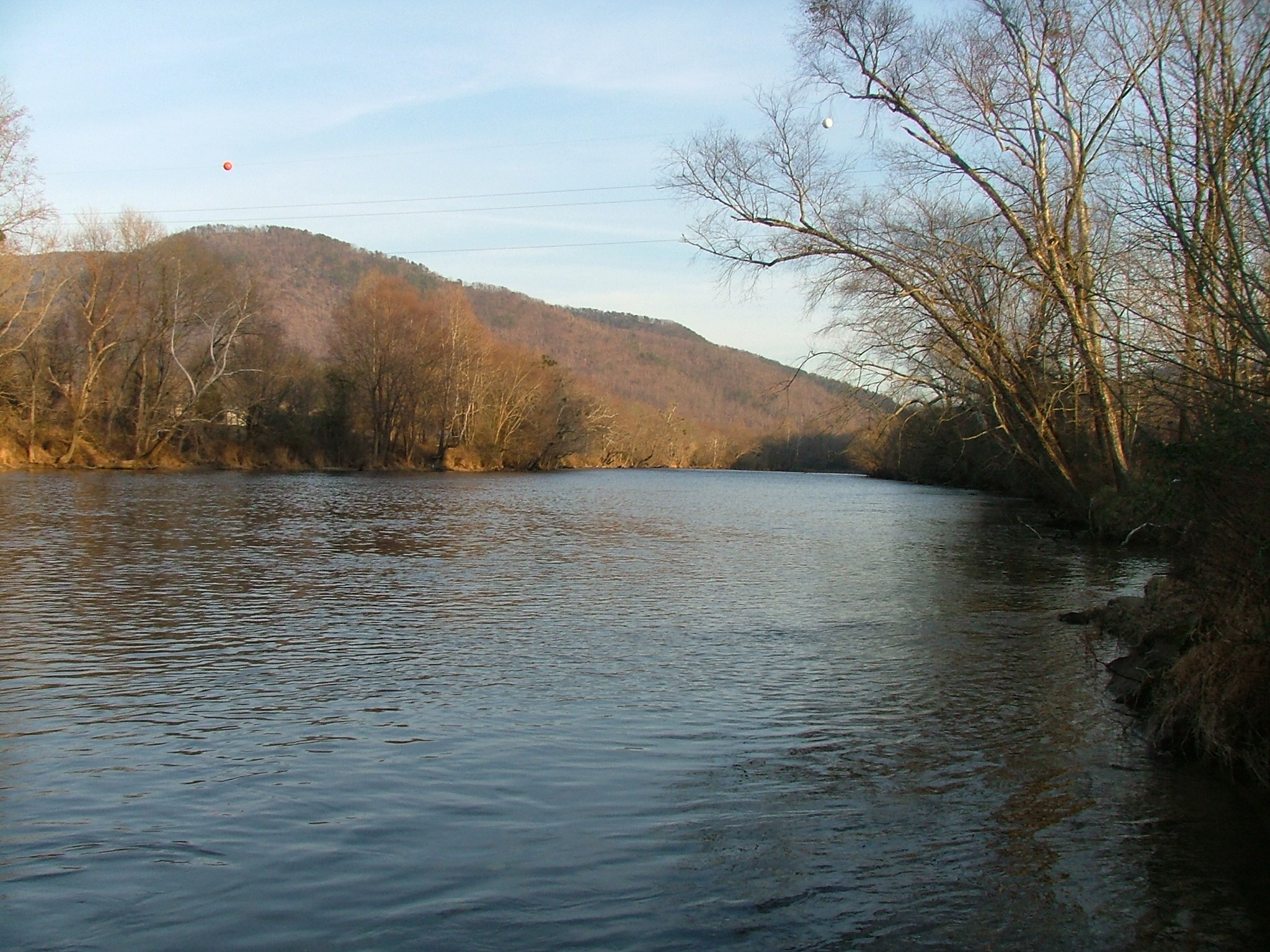 Taken by me on Dec. 17, 2006